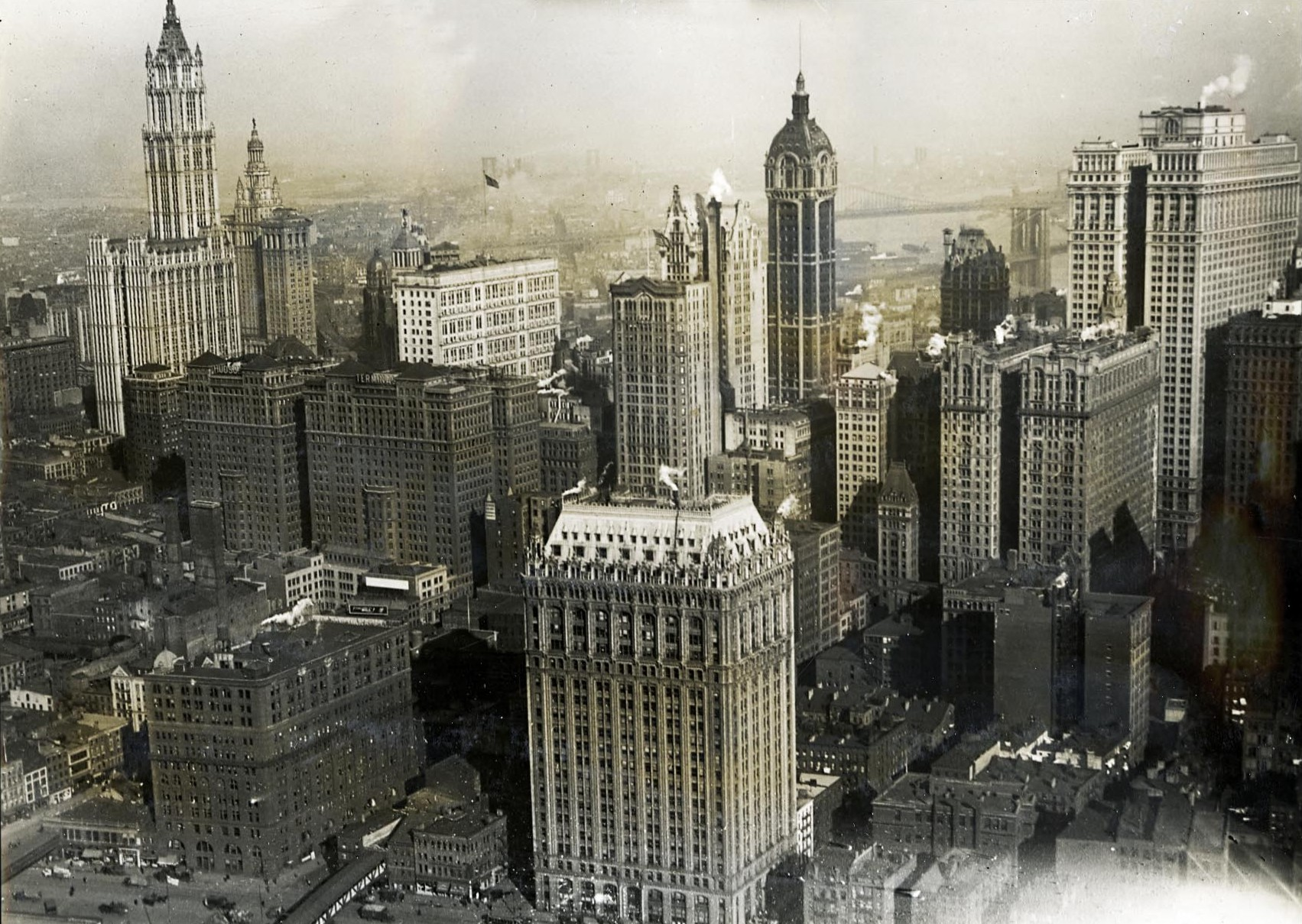 In flight view looking east, taken from a U.S. Navy flying boat passing over New York City skyscrapers, New York (USA) in 1919.